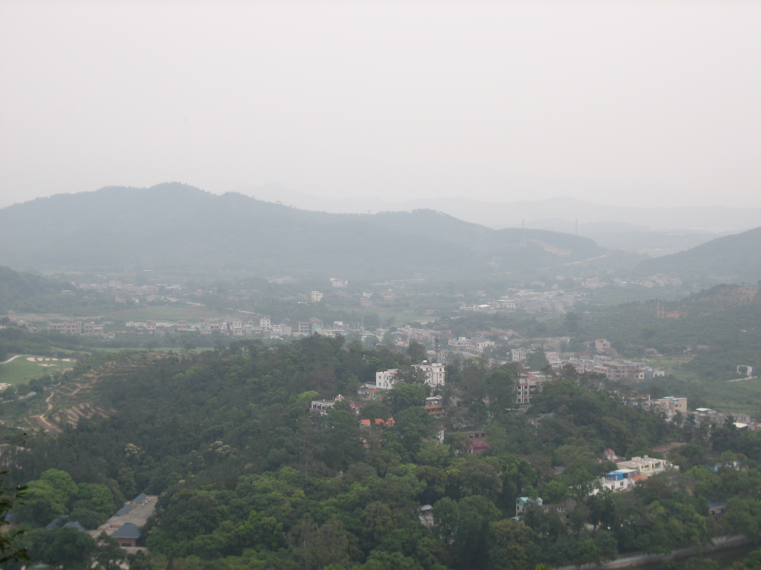 Boluo County from Luofu Shan